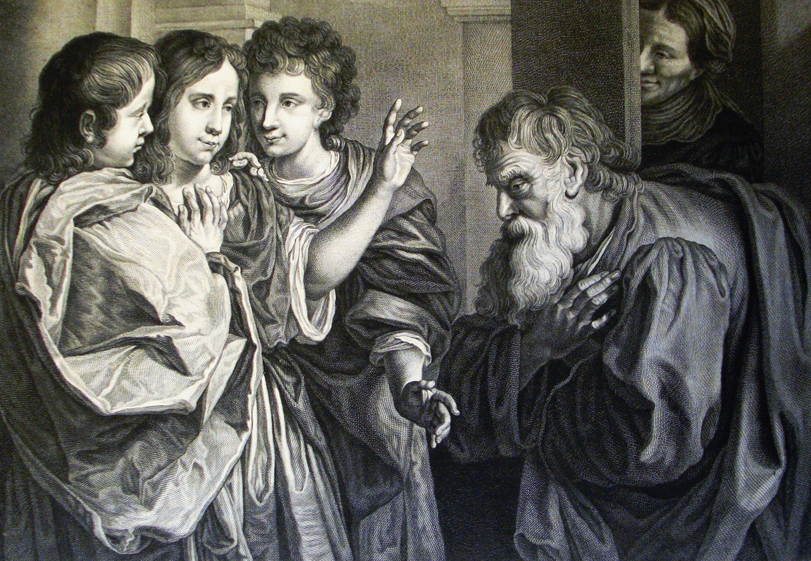 In the collection of Revd. Philip De Vere at St. George’s Court, Kidderminster, England.